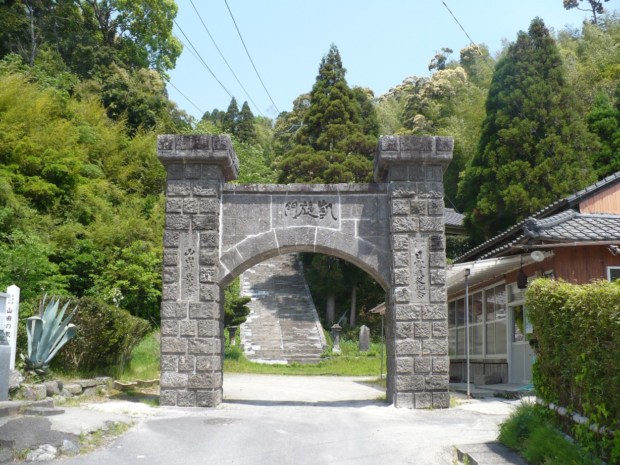 The memorial arch in Yamada, Aira town Kagoshima prefecture, Japan. This was a memorial to the victory of Japanese-Russo war